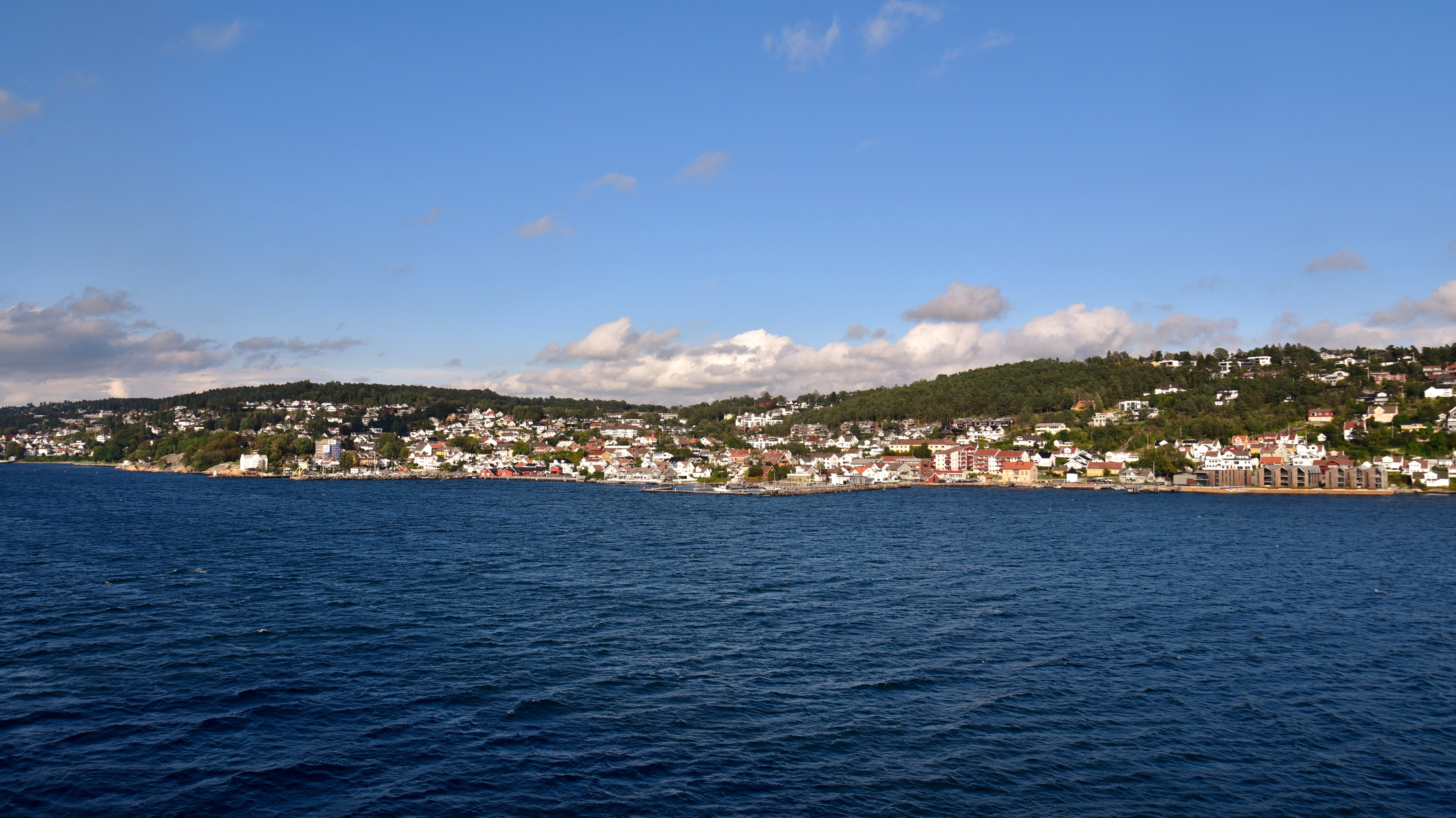 View of Drøbak, Norway, taken from a deck of the passing Stena Line cruiseferry MS Stena Saga